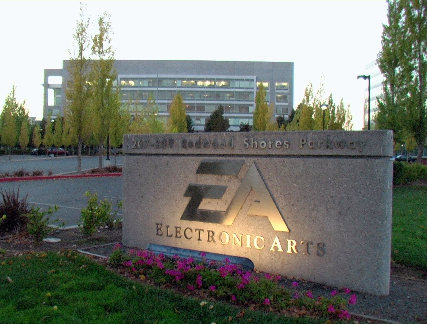 Electronic Arts world headquarters in Redwood Shores, California. (Color-corrected version)